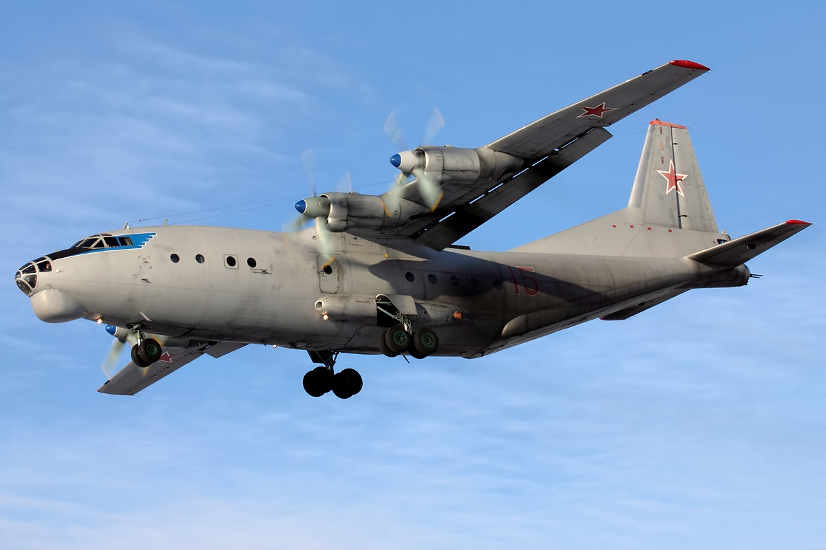 Russian Air Force Antonov An-12BK